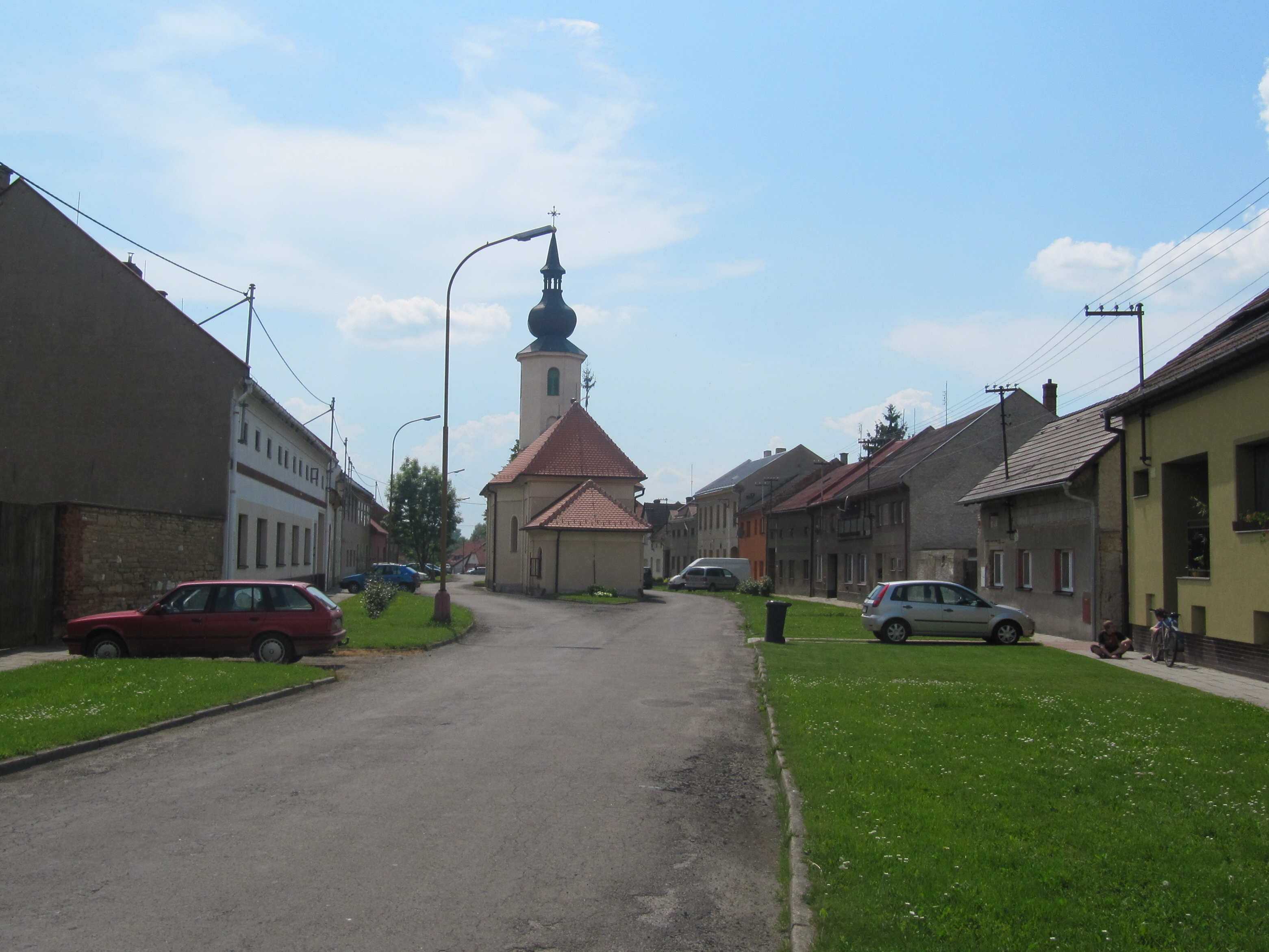 Hulín in Kroměříž District, Czech Republic, part Záhlinice. Common with the Church of the Assumption.